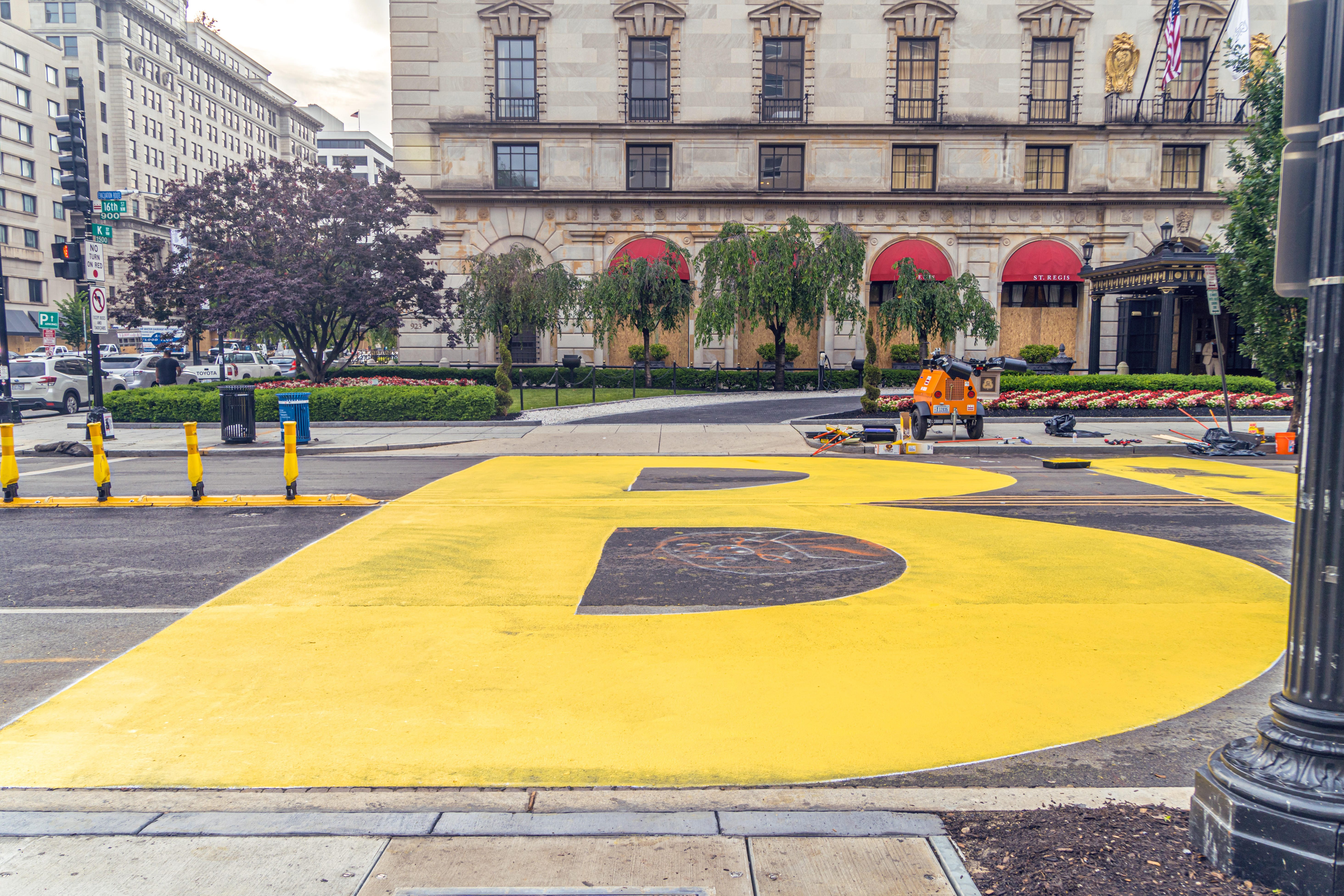 2020.06.05 Protesting the death of George Floyd, Washington